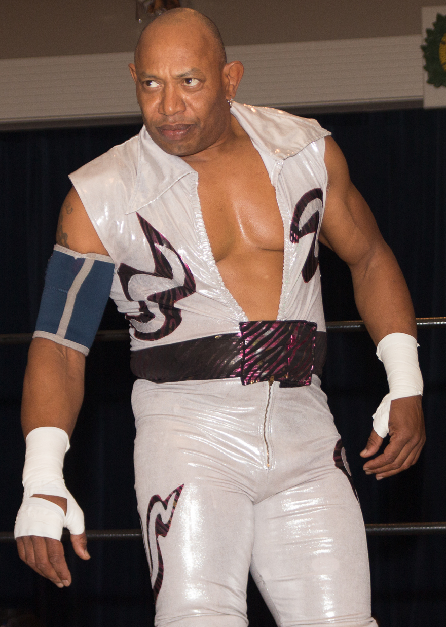 Professional wrestler 2 Cold Scorpio in March 2013.